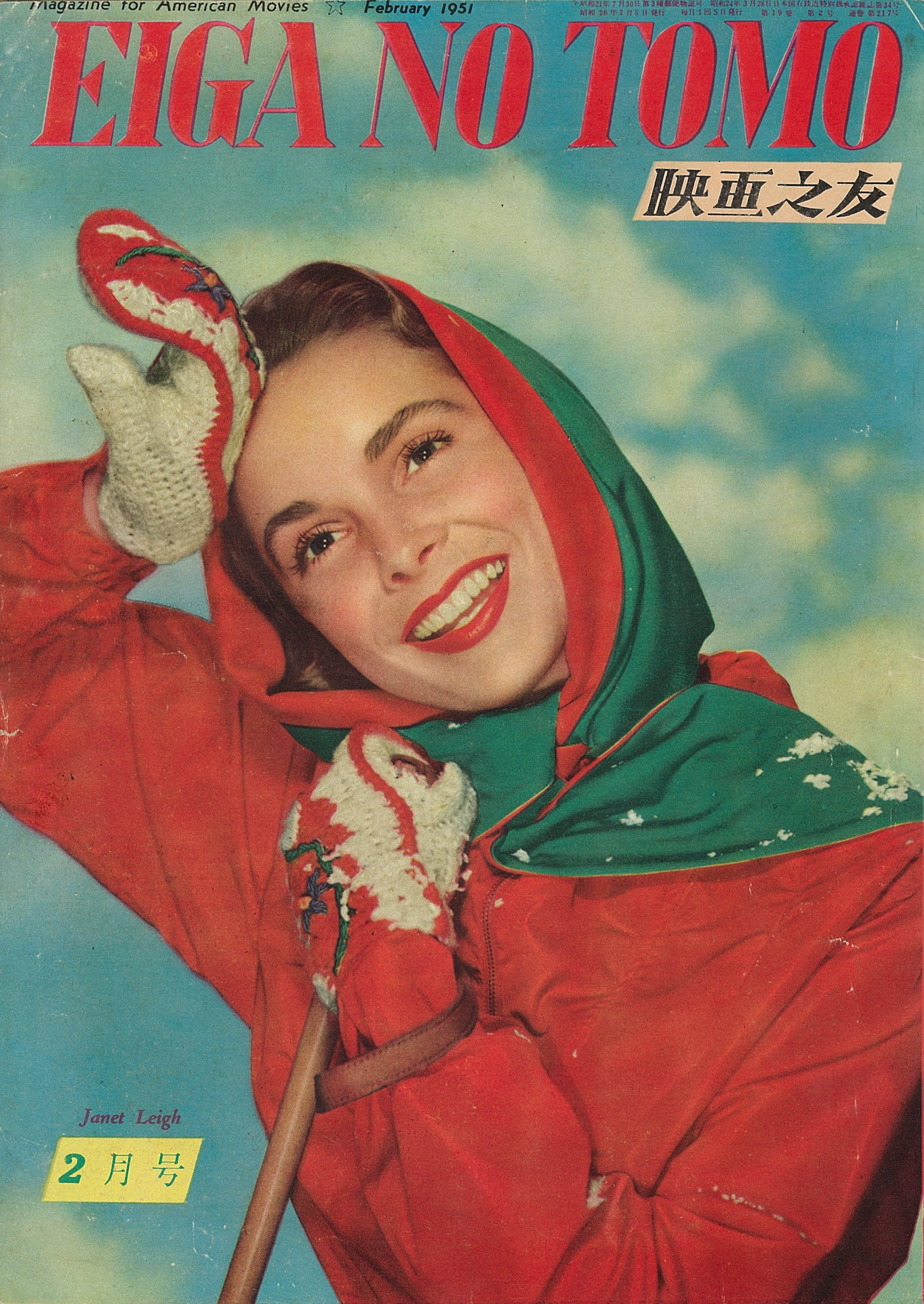 Eiga No Tomo (映画之友) February 1951 Cover featuring Janet Leigh (ジャネット・リー)